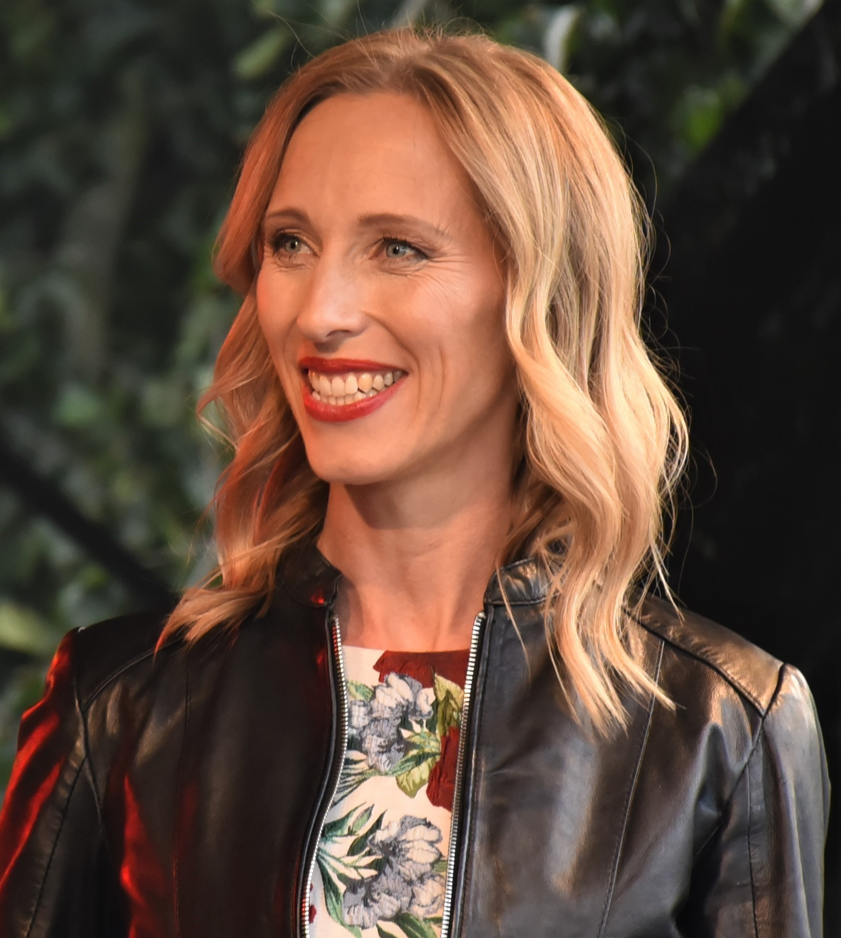 Hana Scharffová, Czech journalist